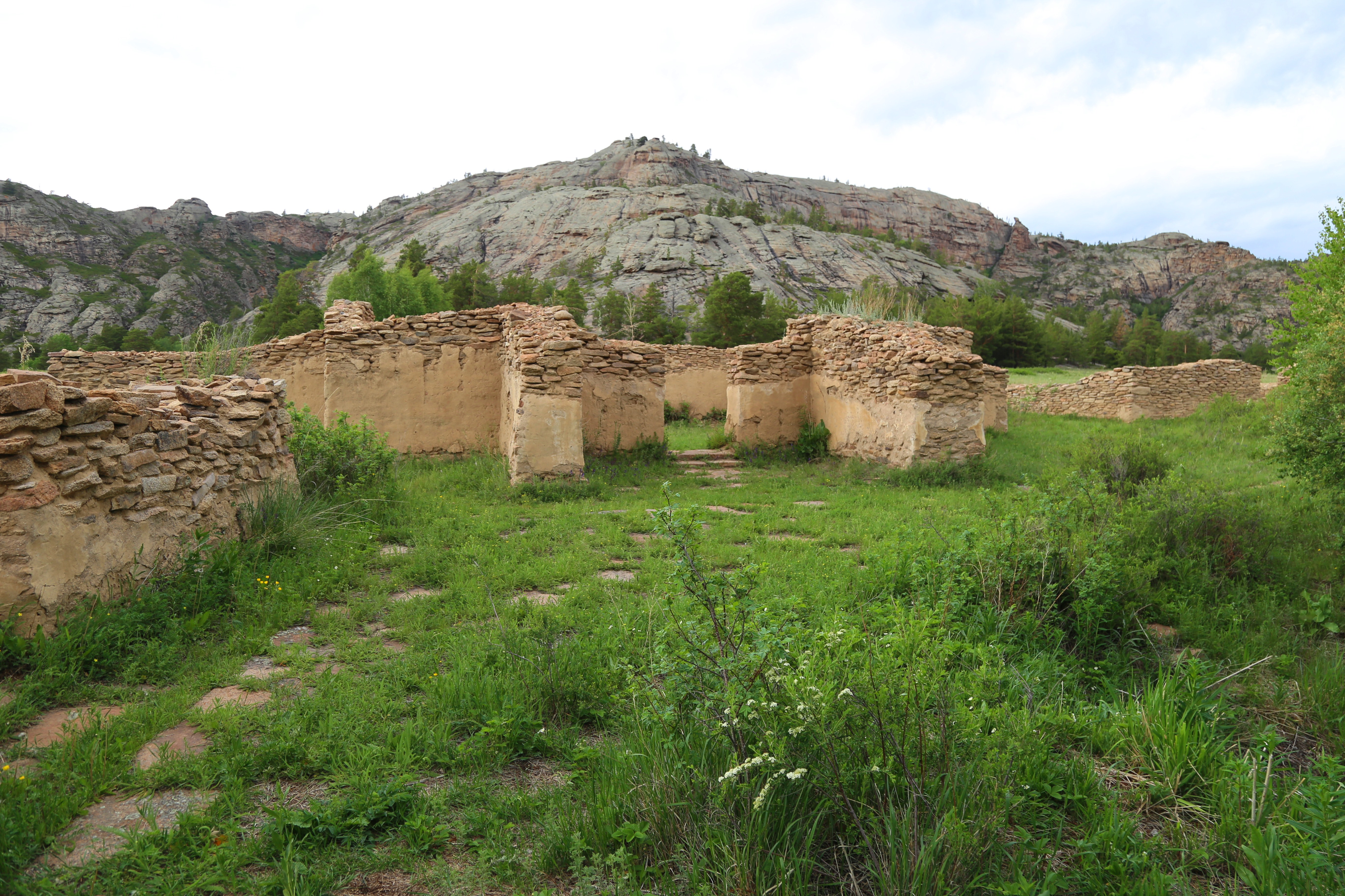 Kyzyl-Kenish